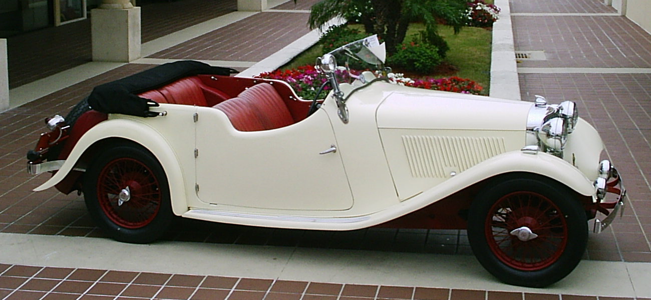 1935 SS 2 4-seater tourer1935 MK II by SS Cars Ltd (side view) a traditional sports car